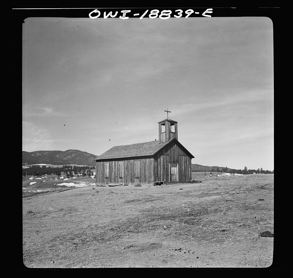 Elizabethtown, New Mexico. A deserted mining center which dates back to the 1870s. Church. United States. Office of War Information. Overseas Picture Division. Washington Division; 1944.